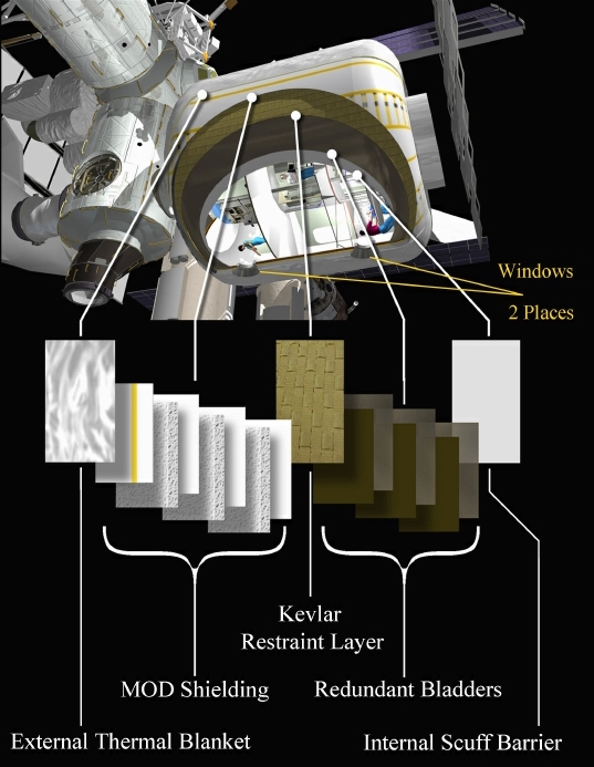 This computer generated image shows a cutaway of the Transhab module shell showing the various layers. Transhab was, as of 2001, intended to be installed on the International Space Station. This research was subsequently abandoned by NASA, and was later licensed by private spaceflight company Bigelow Aerospace. Bigelow has, as of 2009, placed two demonstration spacecraft into orbit, validating the Transhab technology. MOD = Micrometeorite Orbital Debris